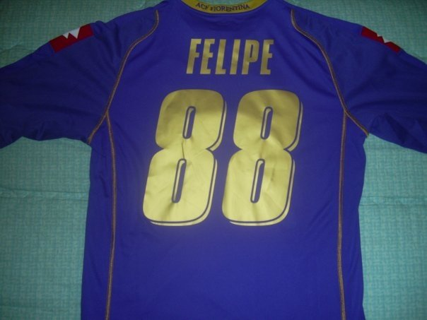 Melo's kit